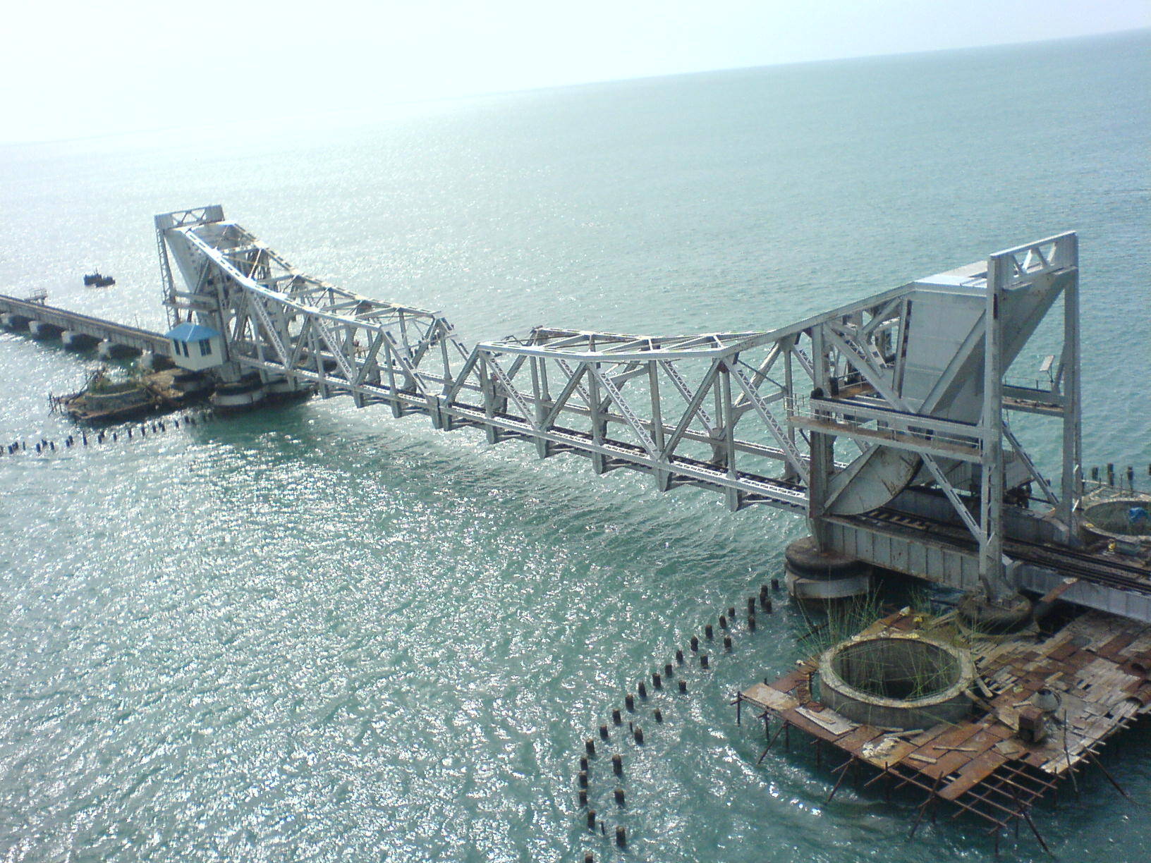 Pambam Bridge between Mainland India and Rameshwaram Island.